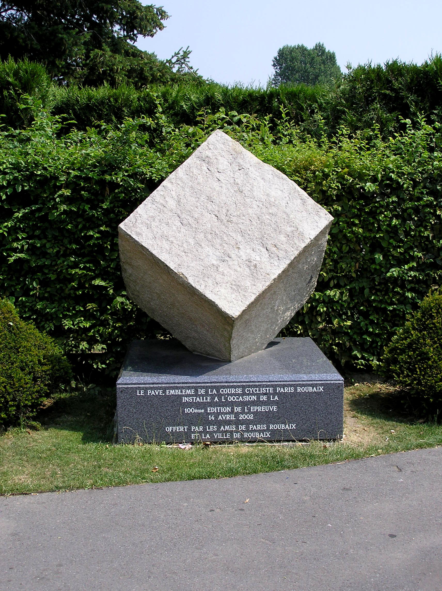 The momument for the 100th edition of the Paris-Roubaix bicycle race (2002), located in front of the Velodrome in Roubaix.